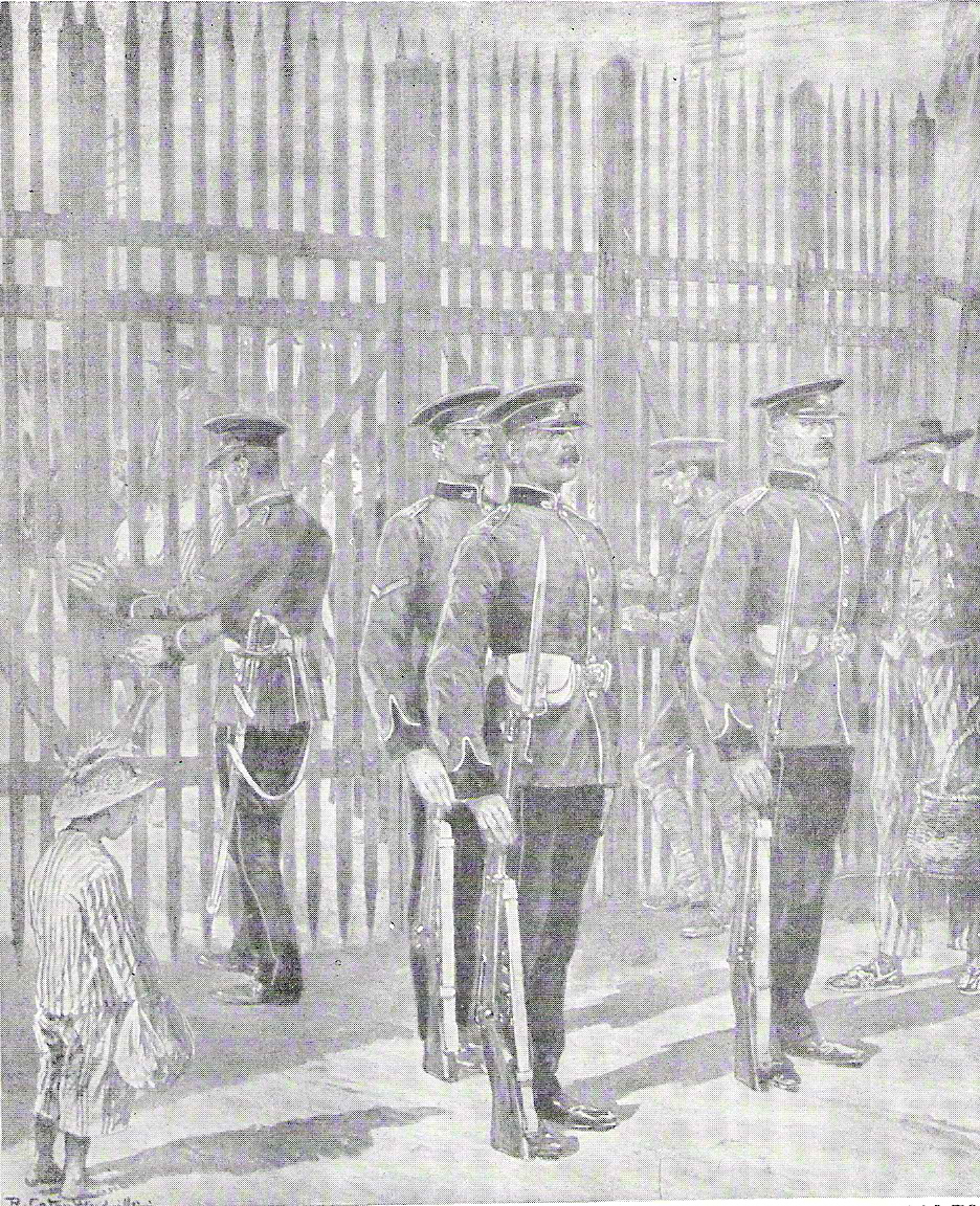 Locking Up a Pillar of Hercules. Closing the Entrance to "Gib". Illustration published on The Illustrated London News on 3 February 1912, by Richard Caton Woodville Jr.